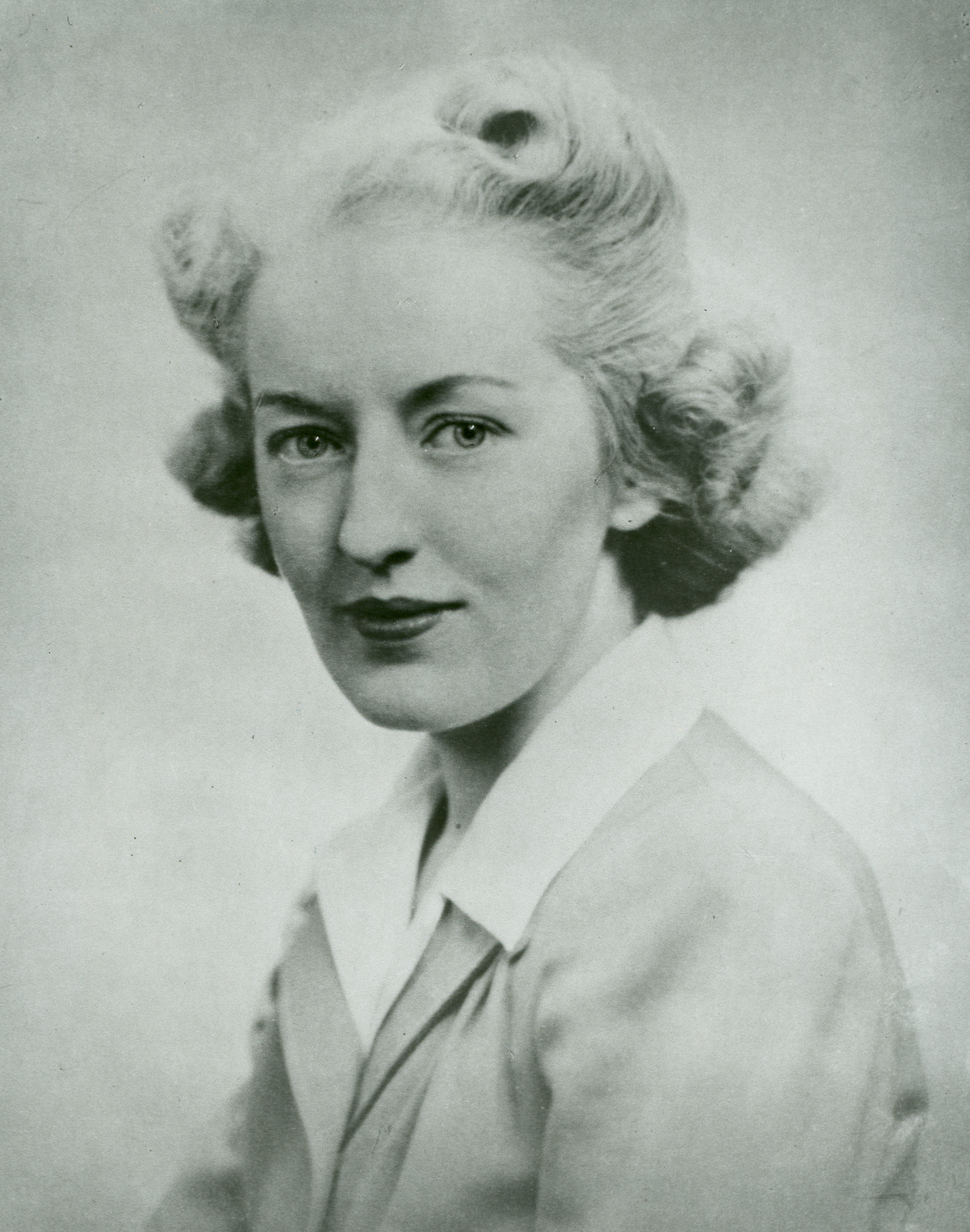 Congresswoman Winifred Stanley of New York